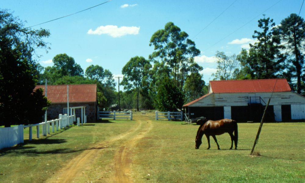 Taromeo Homestead complex view from entrance (2002)